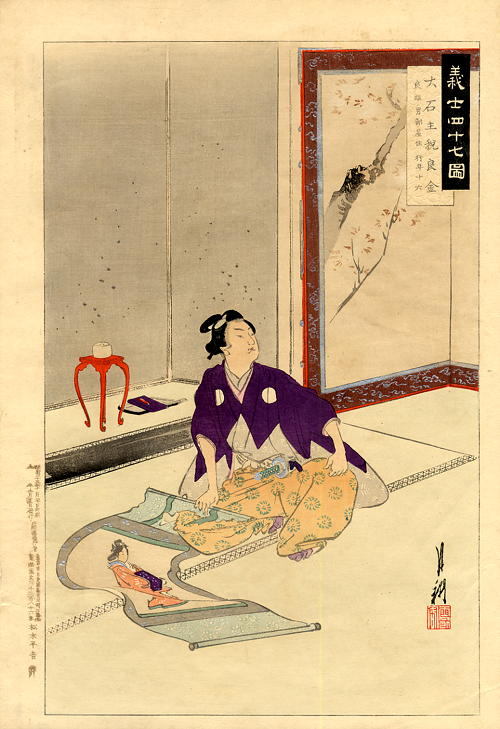 Ronin are masterless samurai. Chushingura is the true story of 47 samurai who became masterless in 1701, after their lord had been forced to commit ritual suicide (seppuku) for assaulting a court official who had insulted him. They avenged him by killing the court official after patiently planning for over a year. They were themselves then forced to commit seppuku.